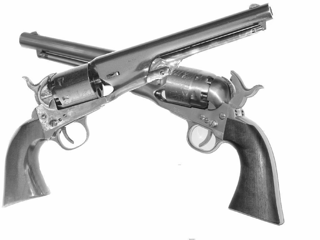 Colt Navy (foreground) and Army (background). Models from 1861 and 1860, respectively.